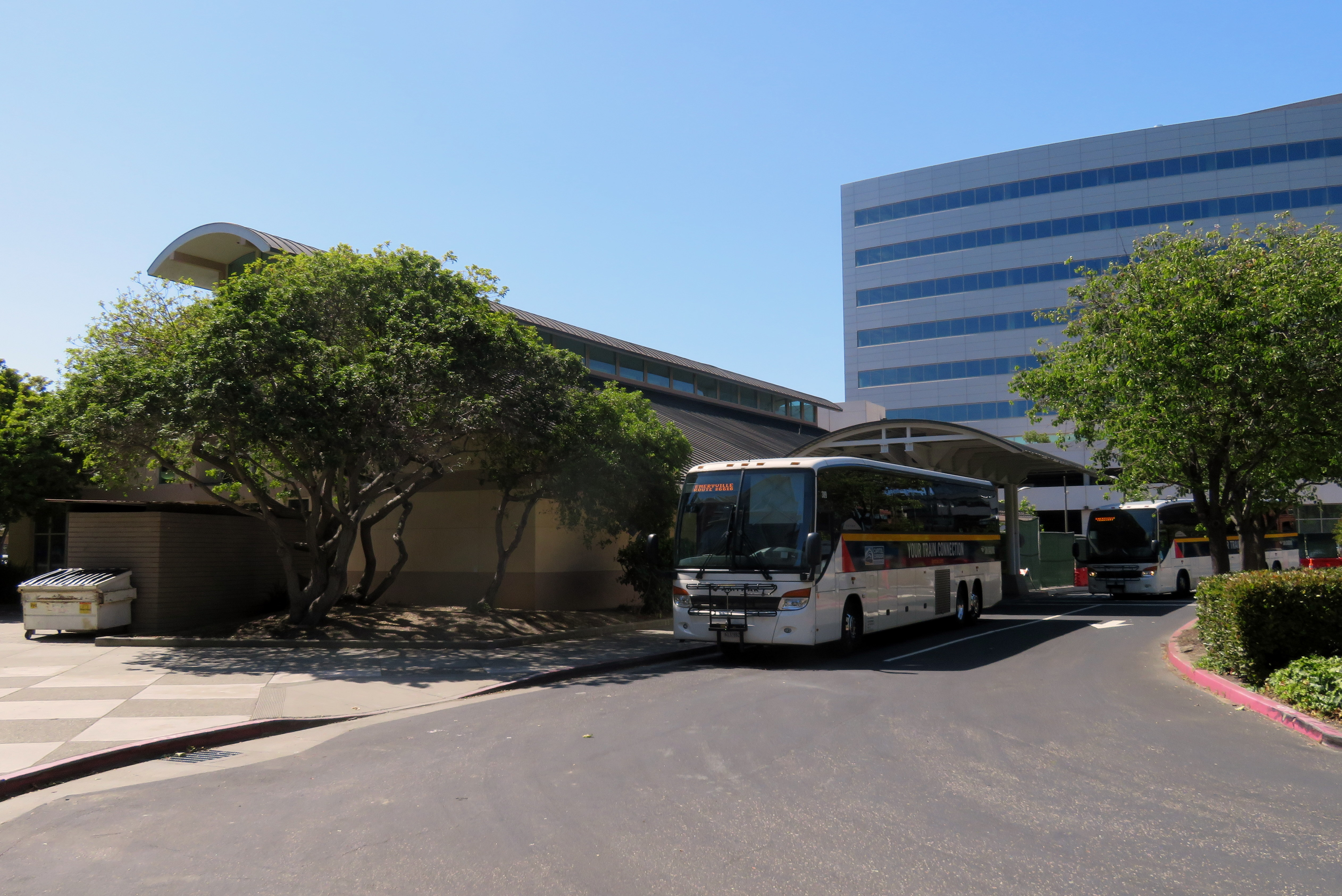 Thruway Motorcoach buses at Emeryville station in June 2018